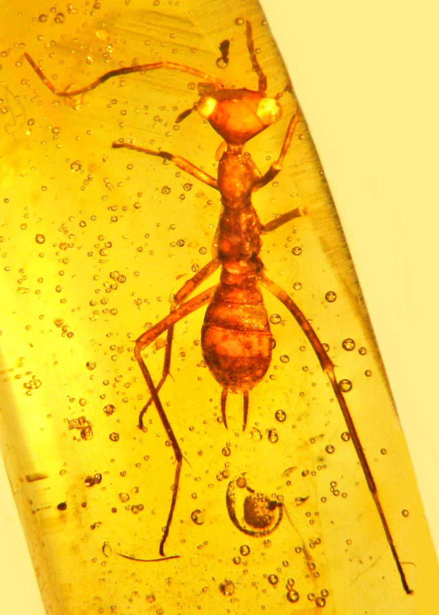 Photo taken by Oregon State University's George Poinar, Jr. of the insect 'Aethiocarenus burmanicus', which in 2017 was declared not only a new family (Aethiocarenidae) but also a new order (Aethiocarenodea).